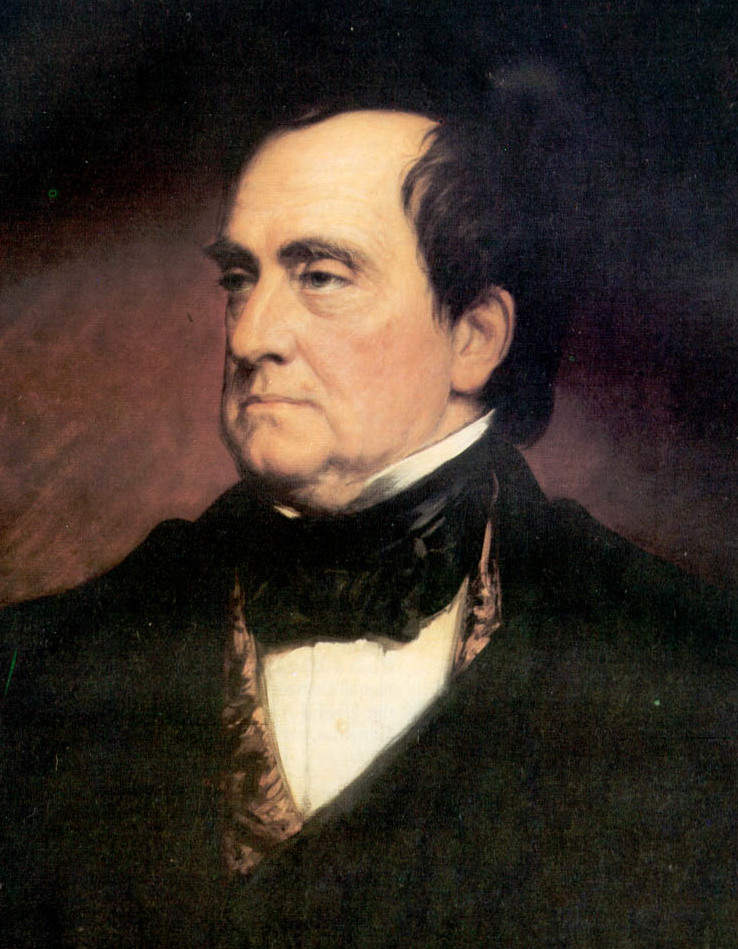 Lewis Cass, 14th United States Secretary of War.